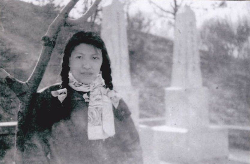 林昭在北京陶然亭的高君宇及石评梅墓前，摄于1959年